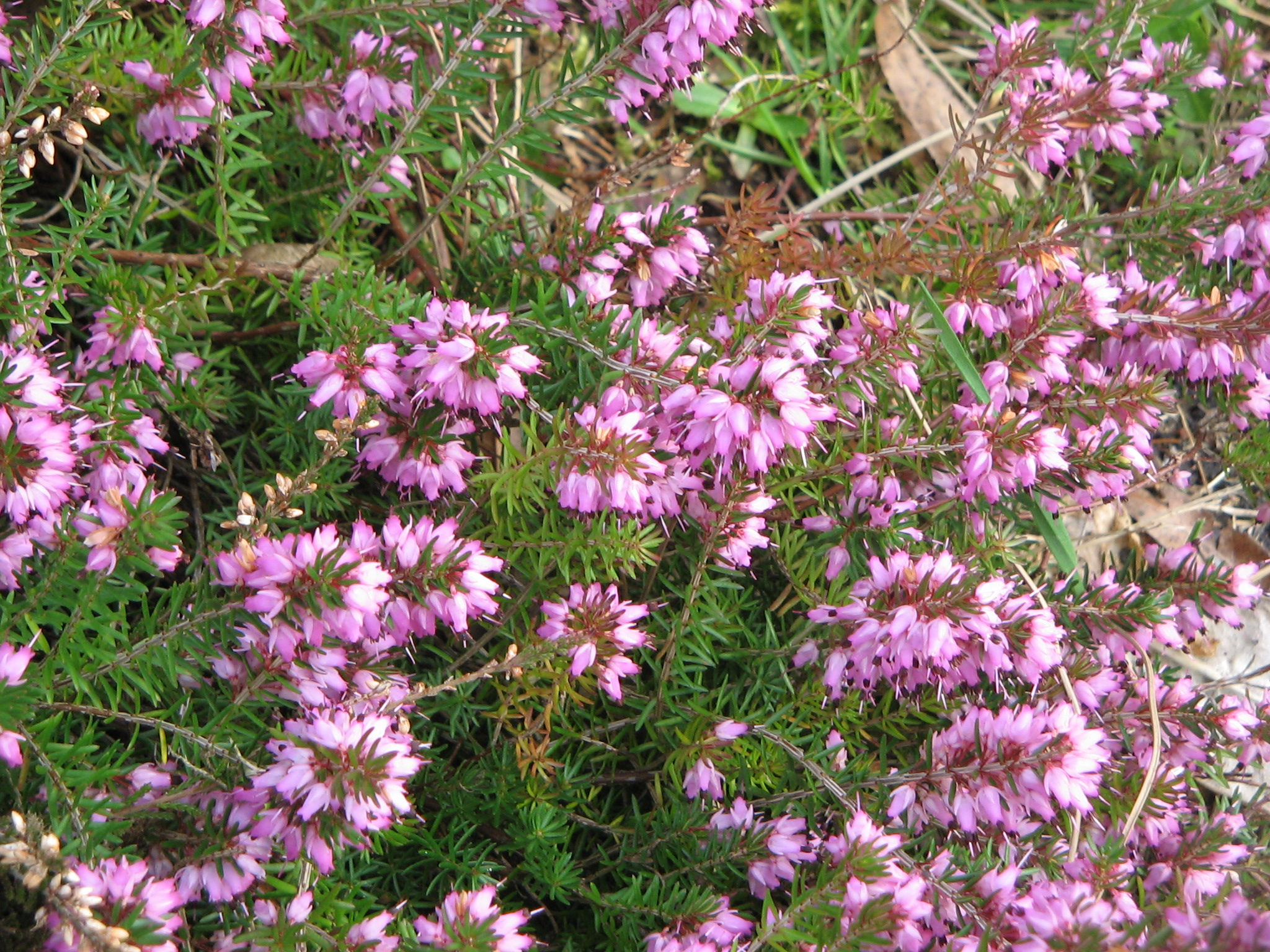 Erica carnea 'James Backhouse'